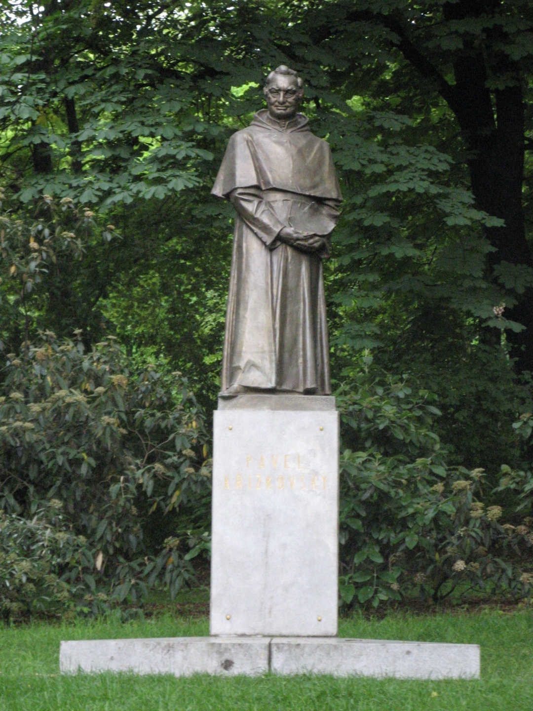 Memorial of Pavel Křížkovský, Brno - Czech Republic